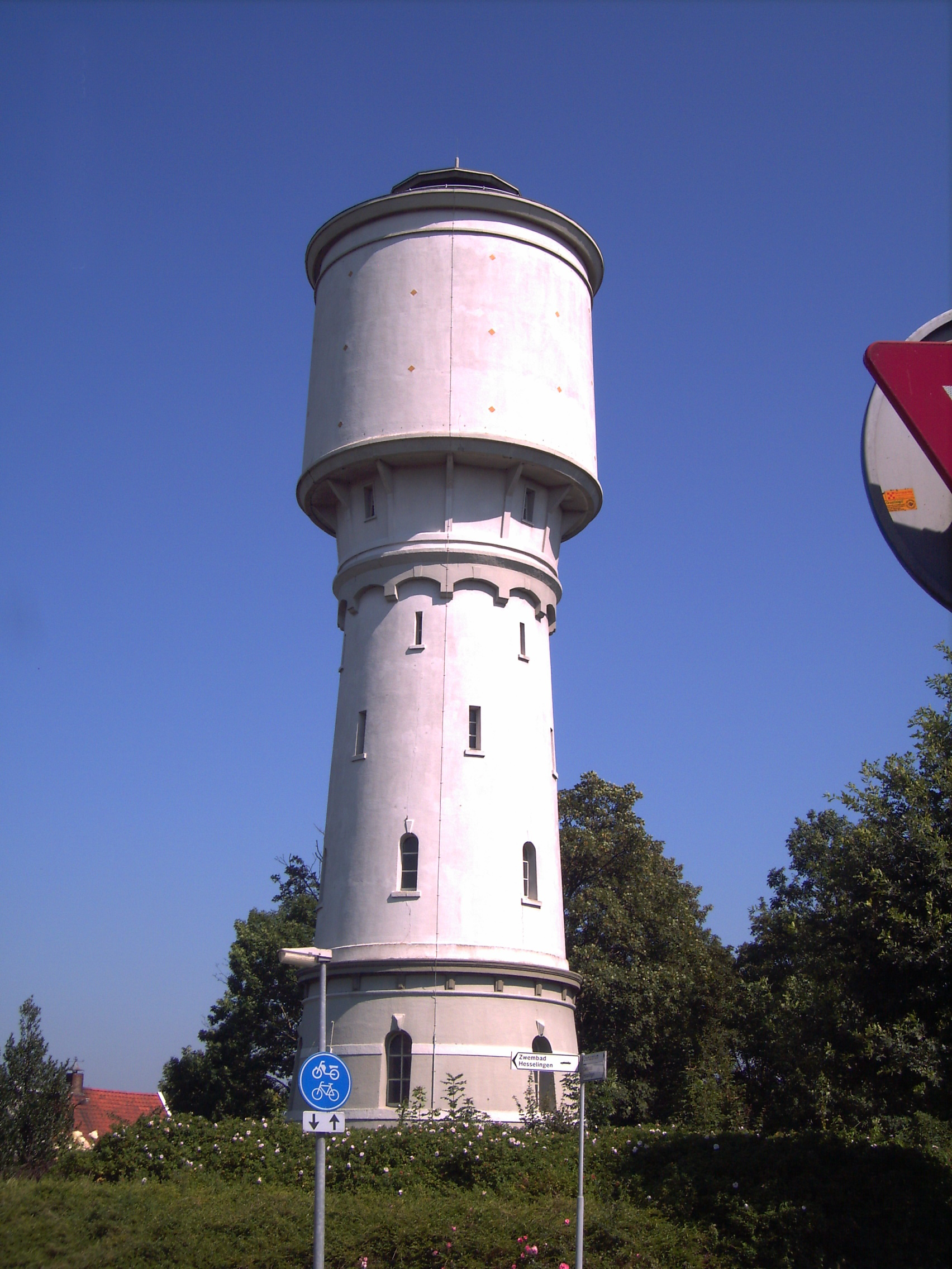 Water tower in Meppel.